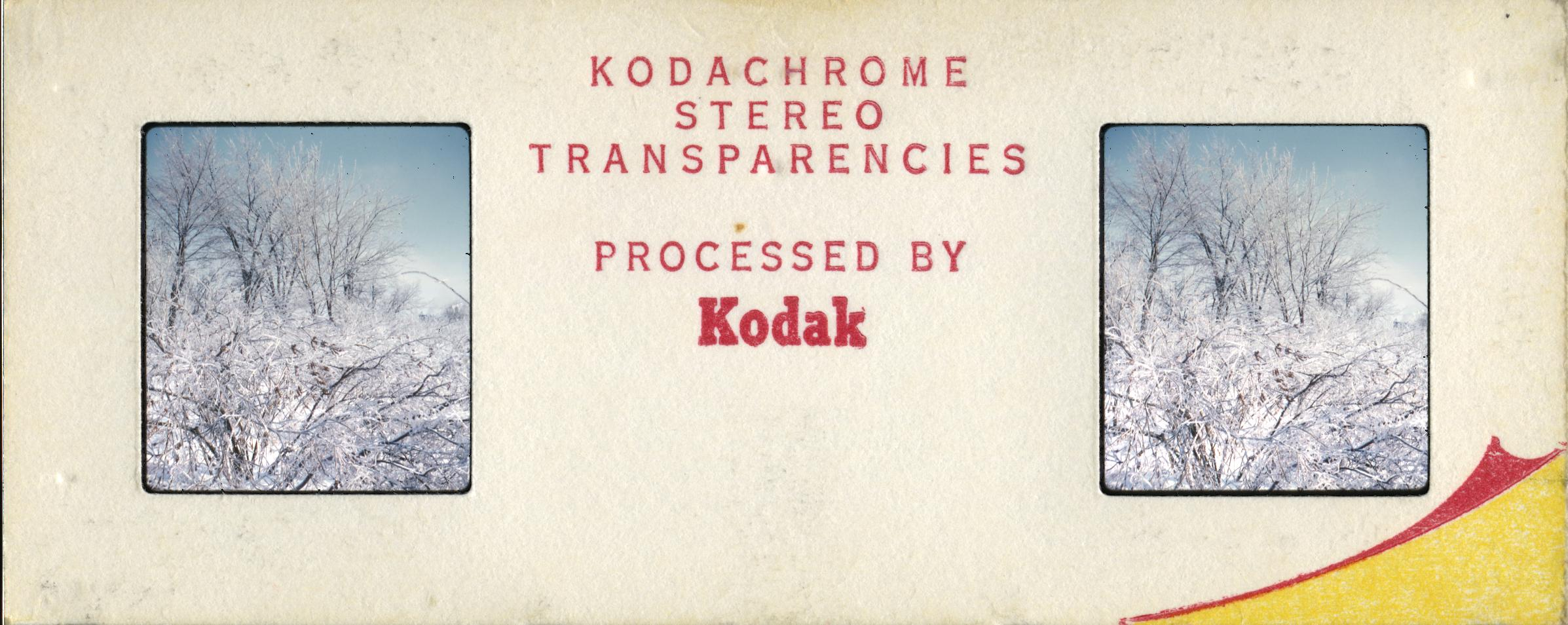 Stereo slide in standard cardboard mounts used by Kodak's stereo mounting service after about 1958. A date processing date was embossed on the other side.